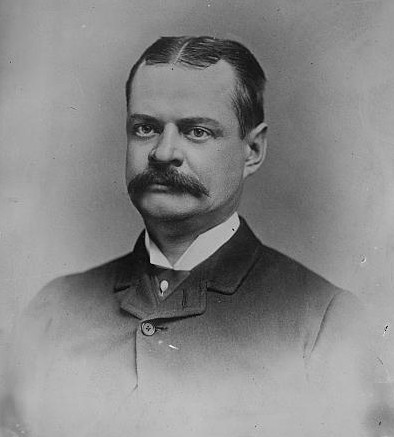 William Waldorf Astor, 1st Viscount Astor (1848-1919), financier and statesman